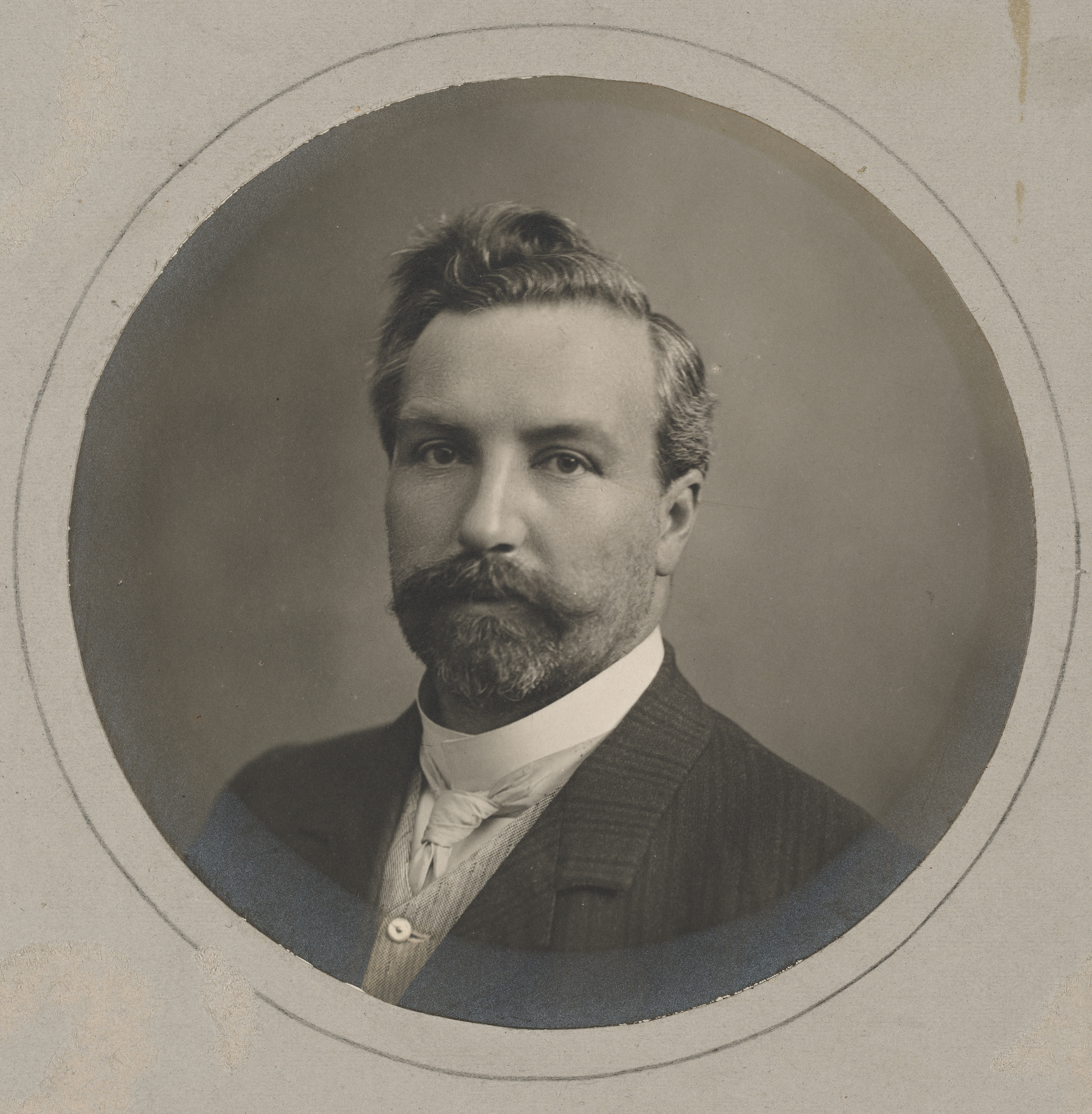 Head and shoulders portrait of Dr William Allan Chapple, circa 1908.